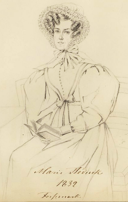 Stedingk, Maria Fredrica von (1799-1868)